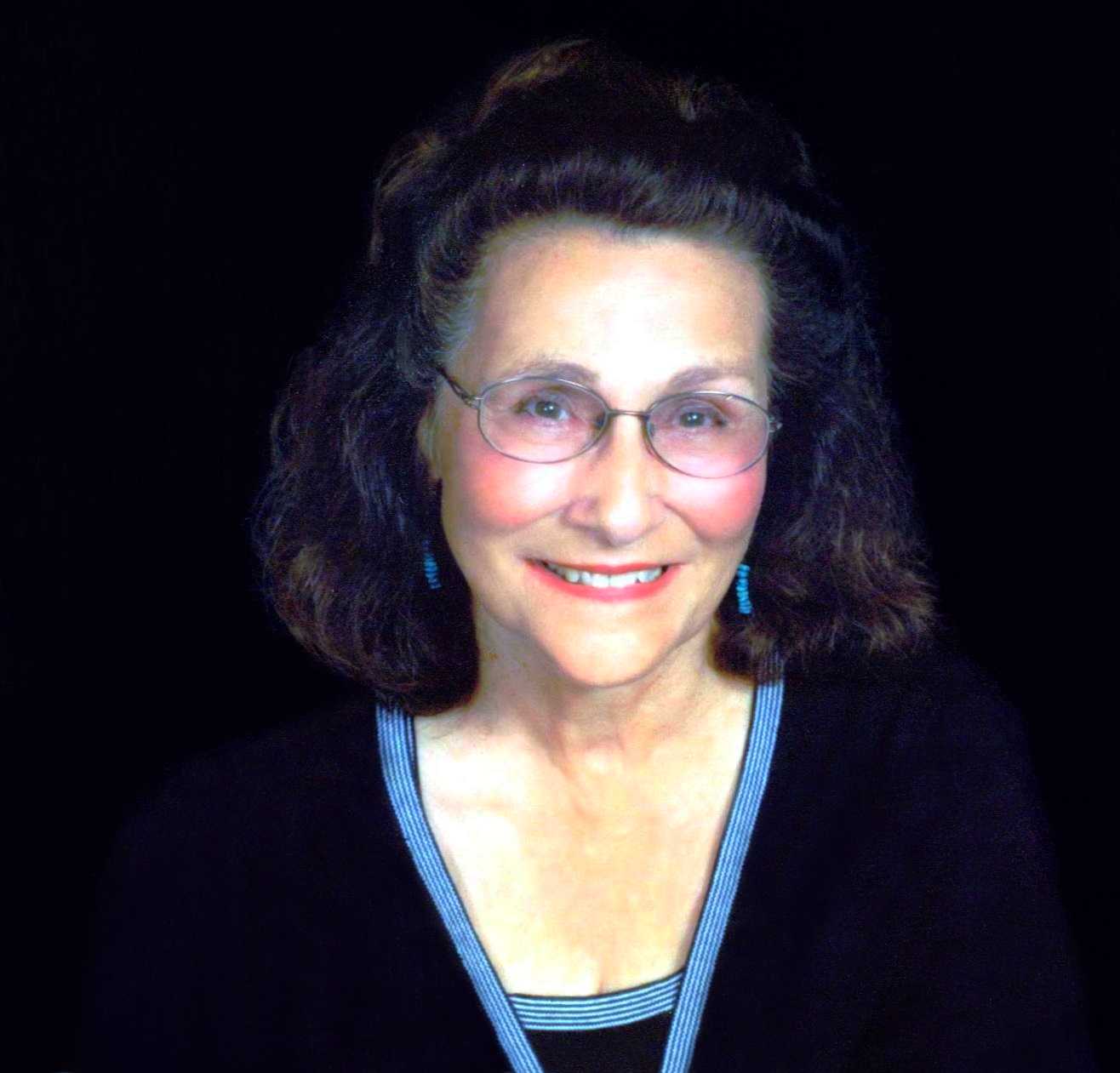 Image of Alice Azure